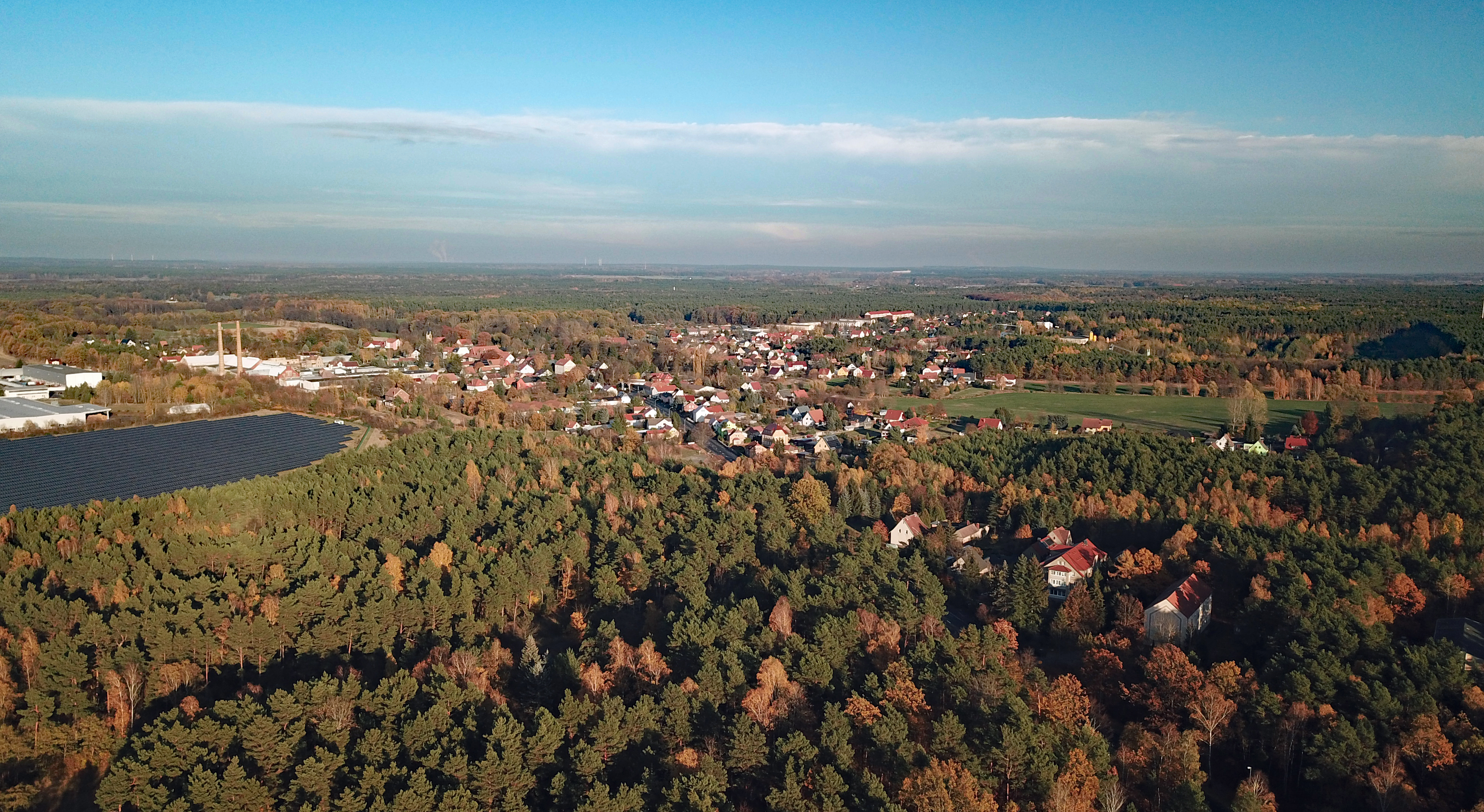 Schwepnitz (Saxony, Germany)